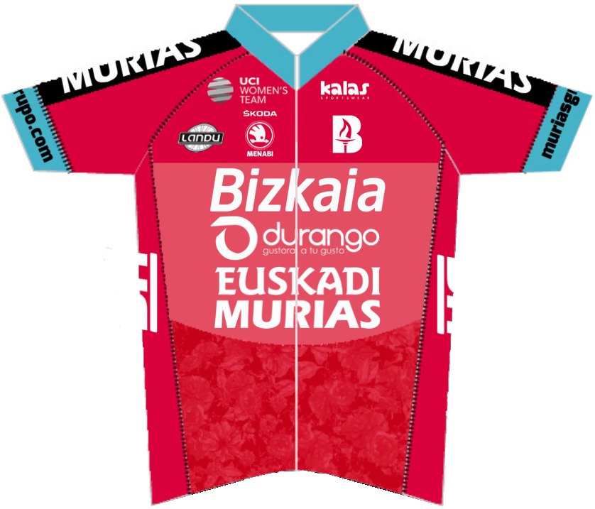 2018 Bizkaia Durango-Euskadi Murias cycling team jersey.